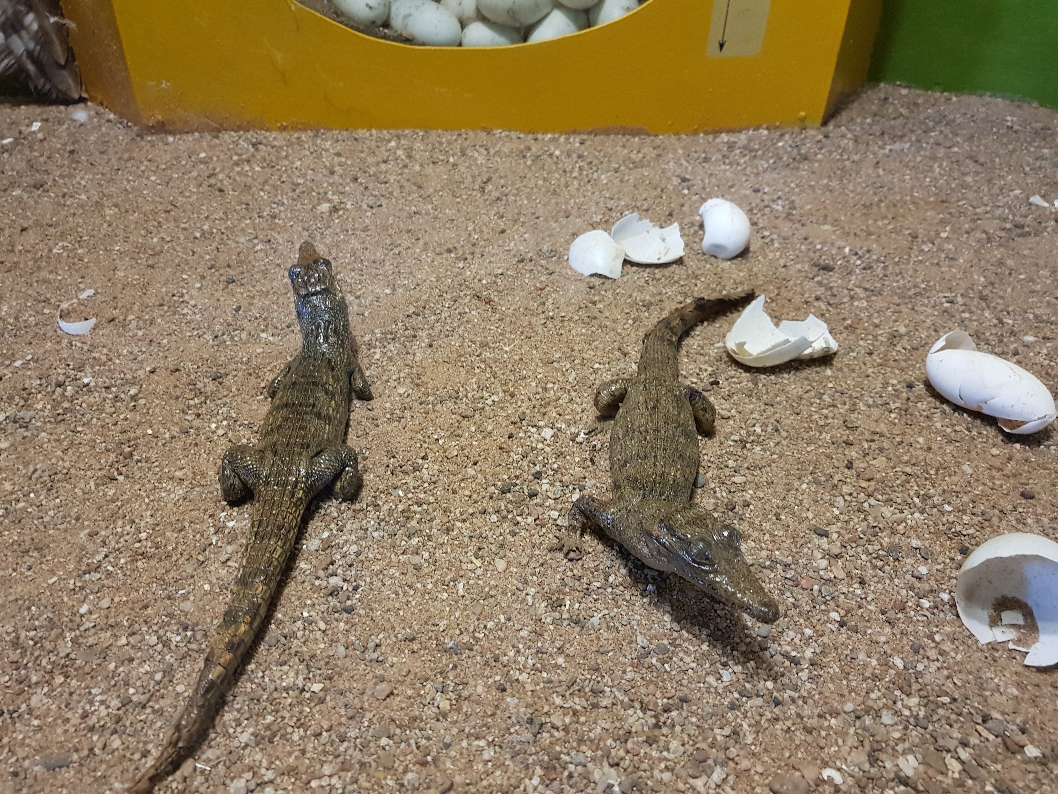 This is an image with the theme "Africa on the Move or Transport" from: Zimbabwe